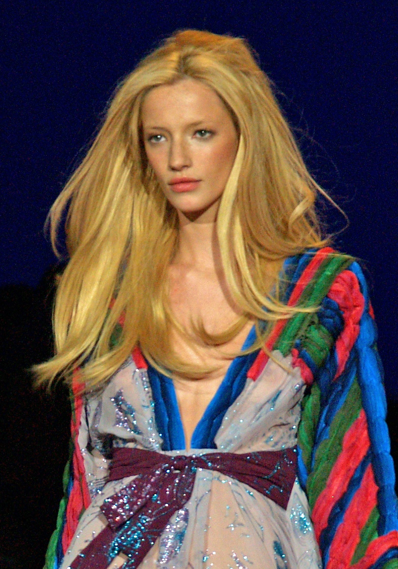 Milagros Schmoll, Custo Barcelona spring 2009 fashion show